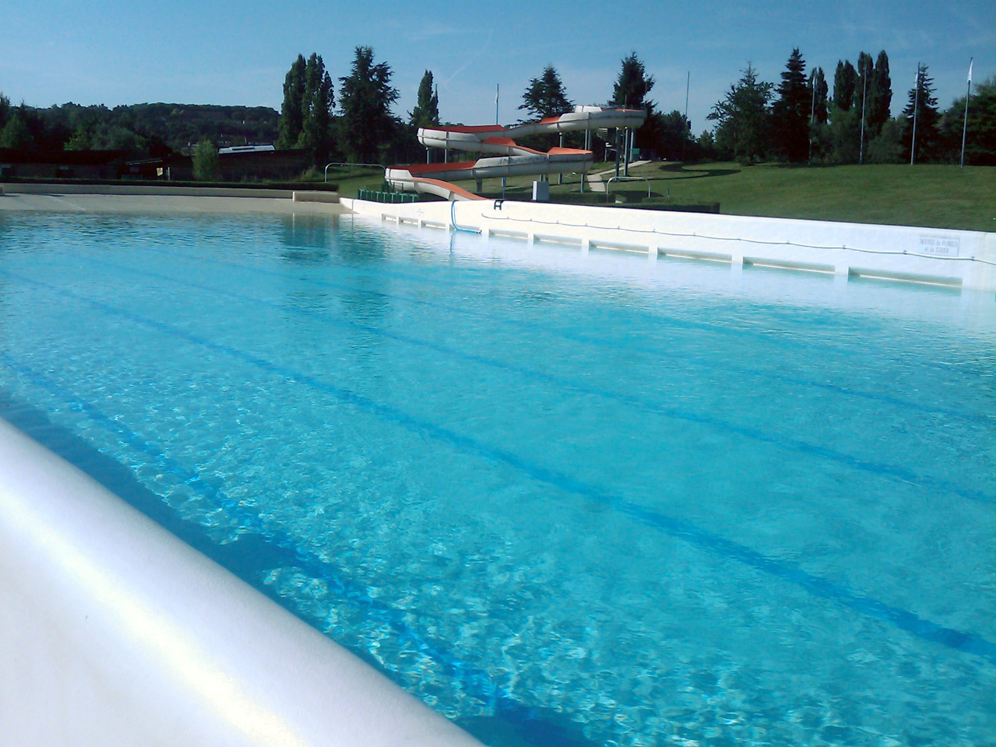 Swimming pool in Étampes (Essonne, France).